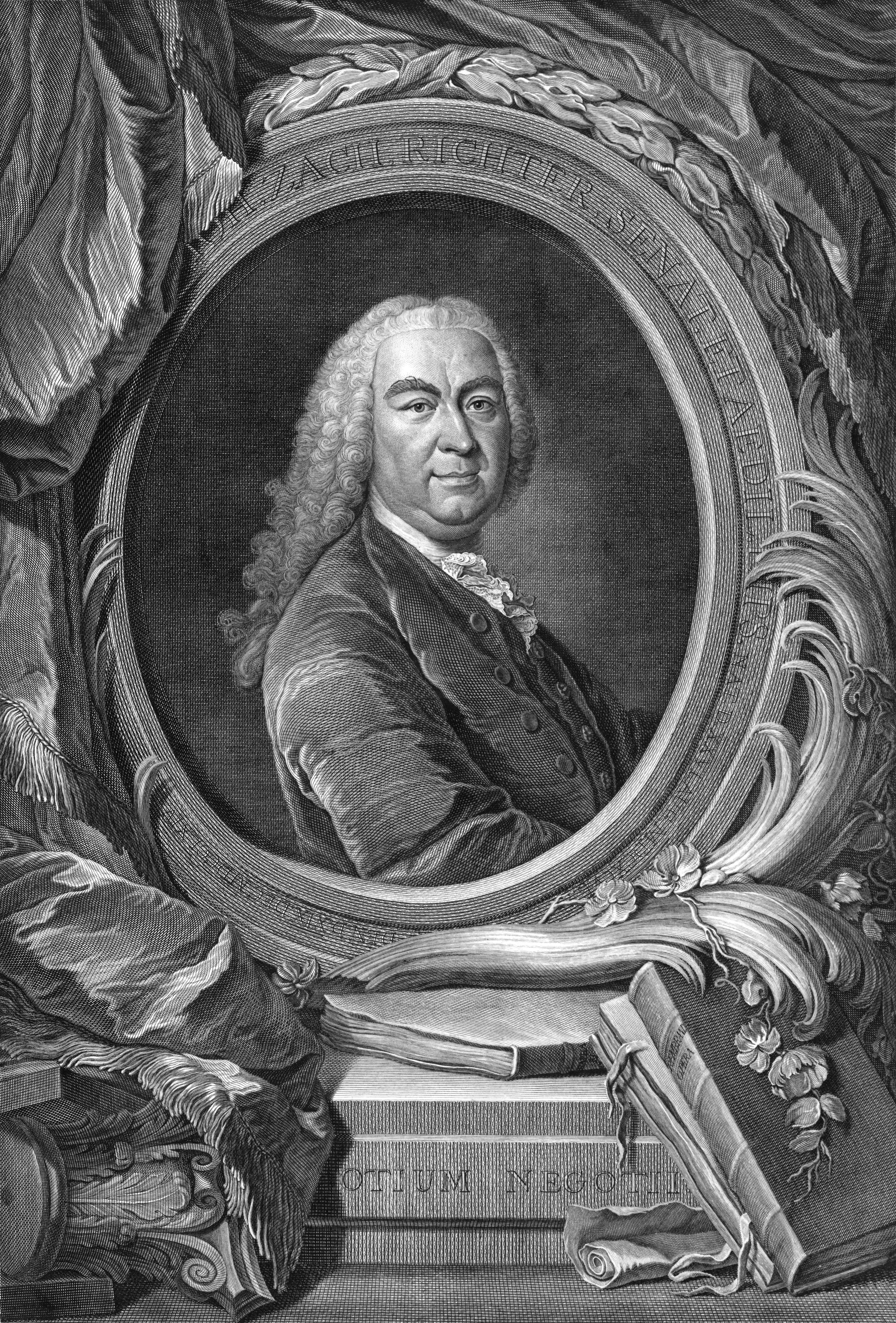 Depicted person: Johann Zacharias Richter (1696-1764)